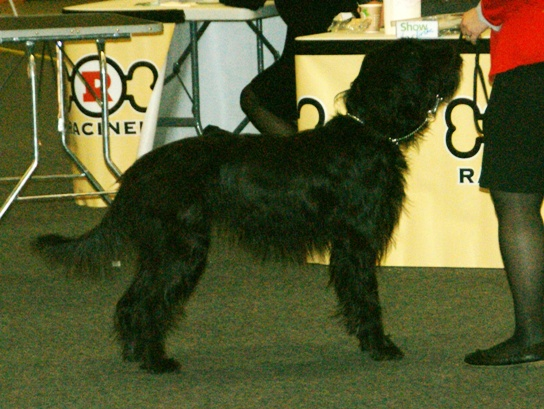 Black Poodlepointer female.